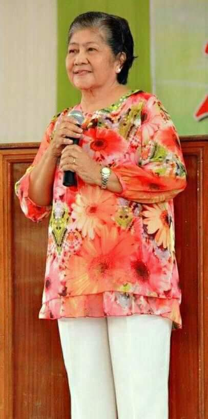 Barangay Captain Nene Del Constantino of Malandag (sent by NL)